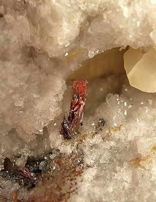 Pyrostilpnite Locality: St Andreasberg, St Andreasberg District, Harz Mts, Lower Saxony, Germany (Locality at ) Size: 10.2 x 9.1 x 5.3 cm. This specimen is a big mass of rock holding a protected pocket with an outstanding crystal of the very rare silver species pyrostilpnite. The crystal is approx 5.5 x 2 mm in size. Ex. Sack collection.